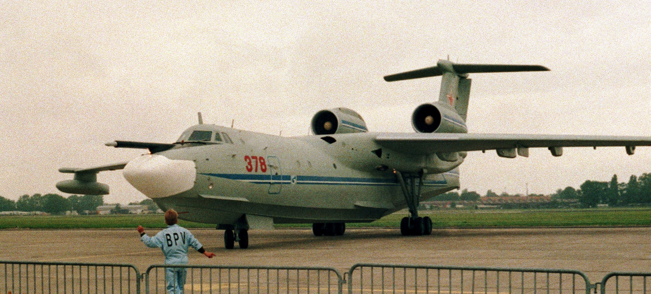 A Soviet A-40 Albatross amphibian aircraft taxis across the ramp at the 1991 Paris Air Show.